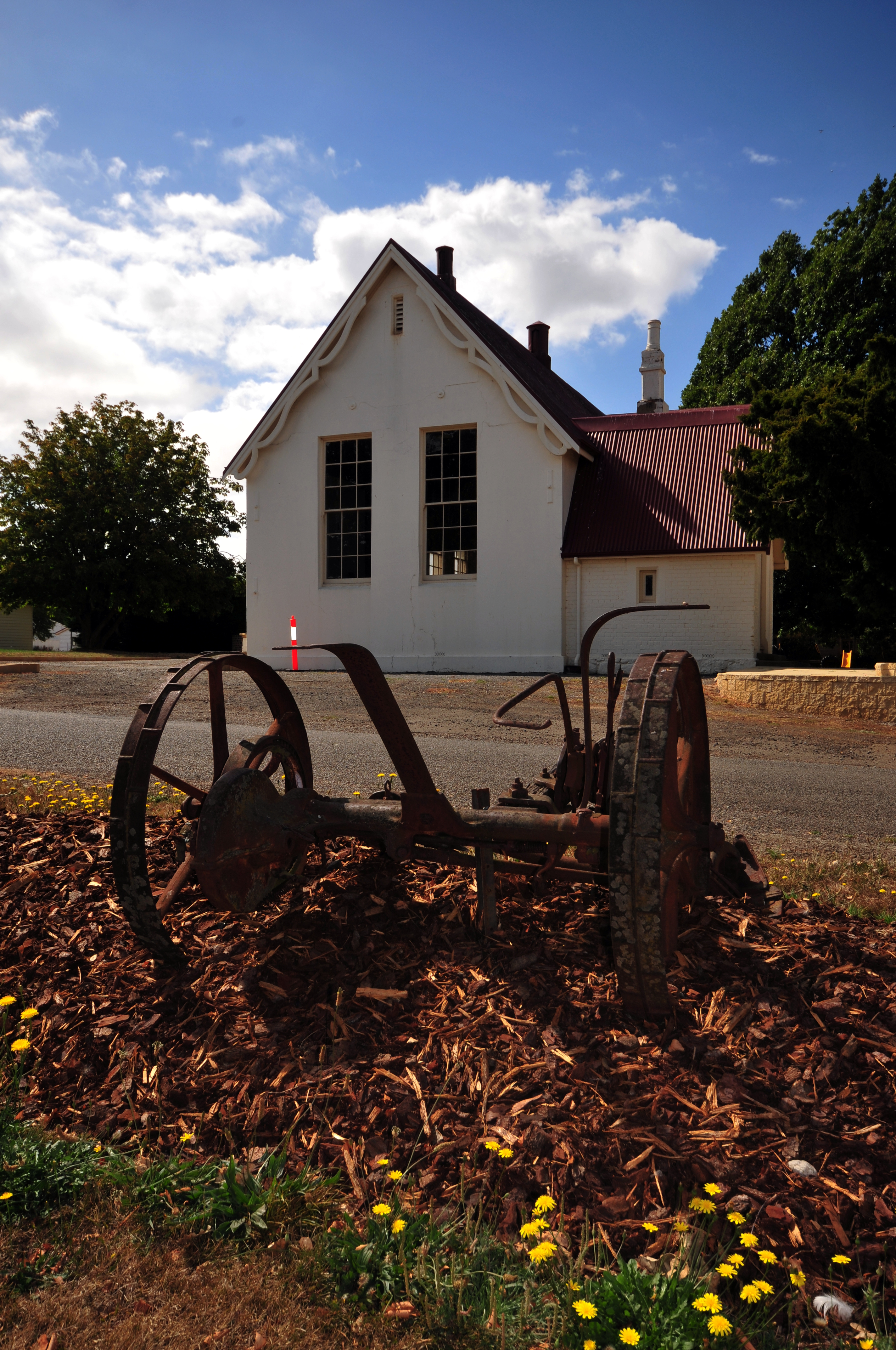 Hagley's 1865 school building. Hagley Primary School. Tasmania Australia